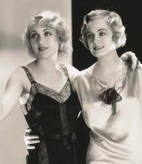 Cropped from a publicity still for the film Safety in Numbers (1930). Featured are Carole Lombard and Josephine Dunn.